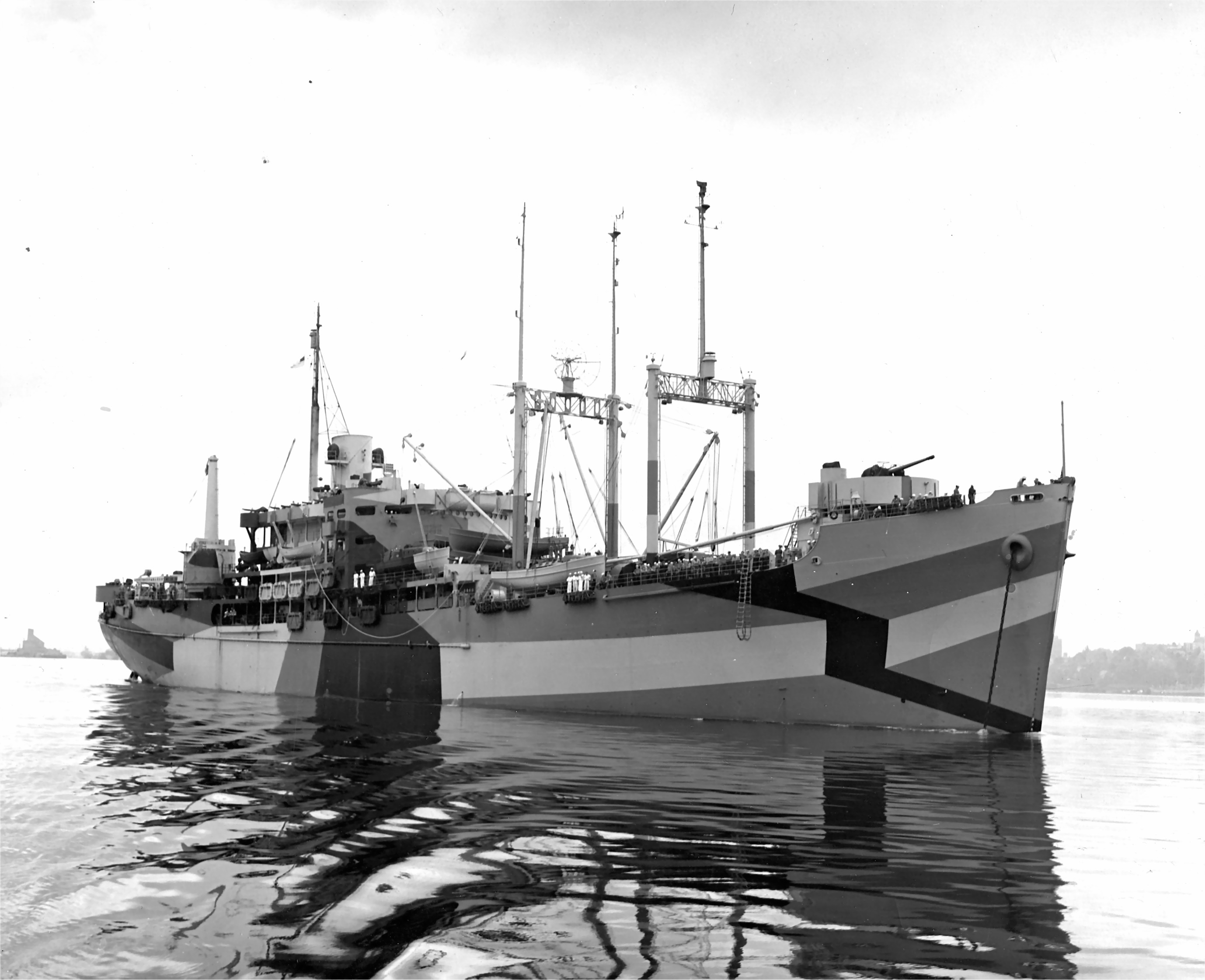 The U.S. Navy seaplane tender USS St. George (AV-16) at anchor, probably soon after commissioning. She is newly painted Camouflage Measure 32, Design 8Ax.